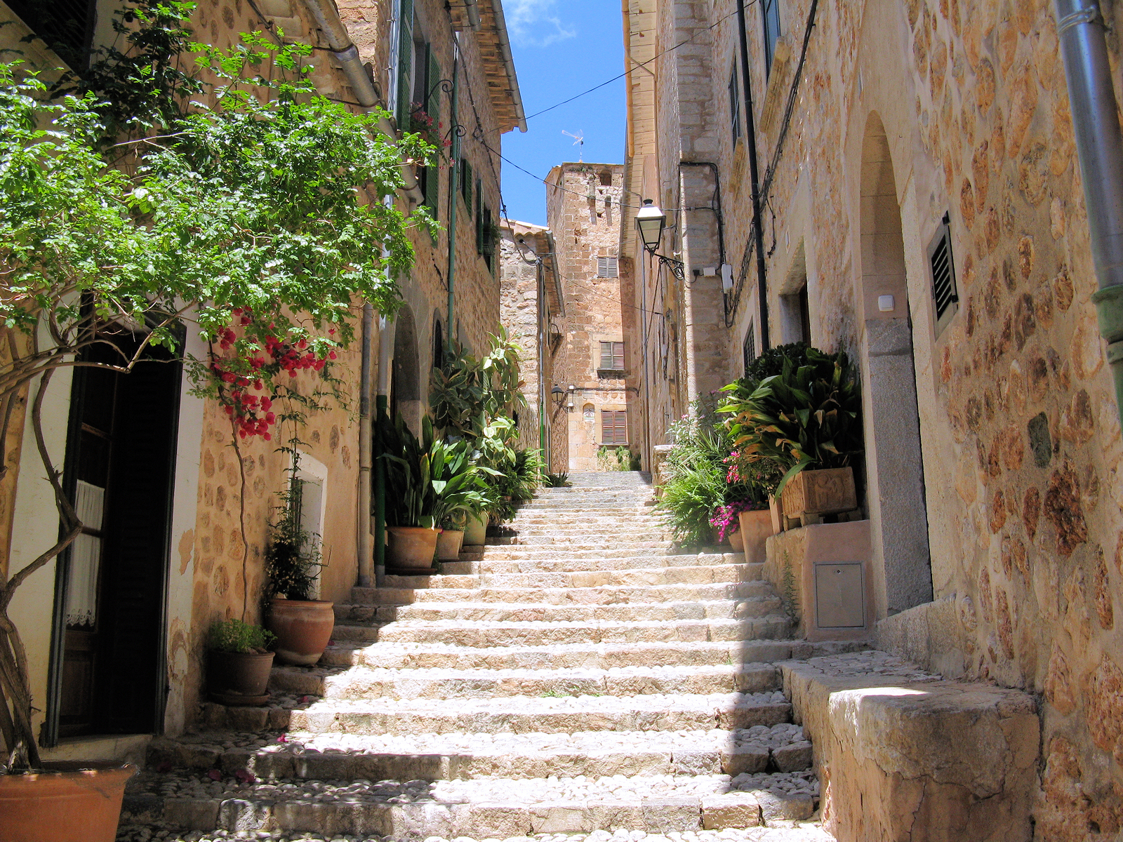 A street in Fornalutx. The village is a few kilometres from Soller in north west Majorca, on the seaward side of the Serra Tramontana mountain range.